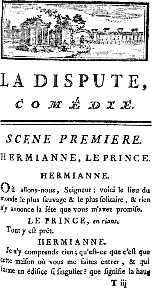 First page of The Dispute (1744) by Pierre de Marivaux (1688-1763)